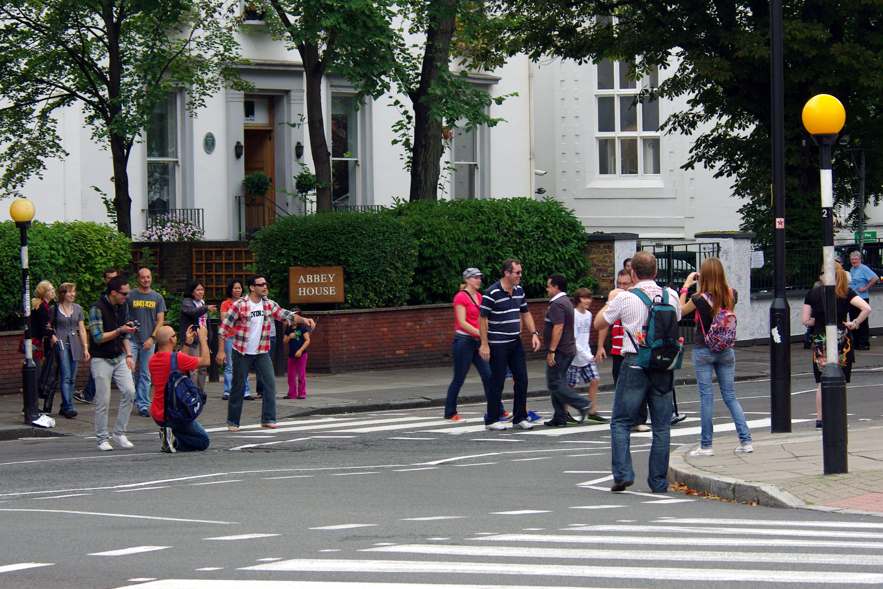 Beatles-Fans at Abbey Road in London